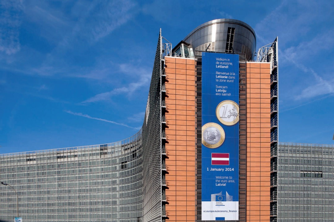 Berlaymont welcoming Euro in Latvia in 2014.